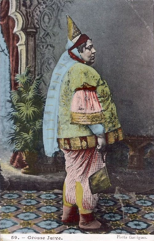 big jew, Djerba island, by Garrigues